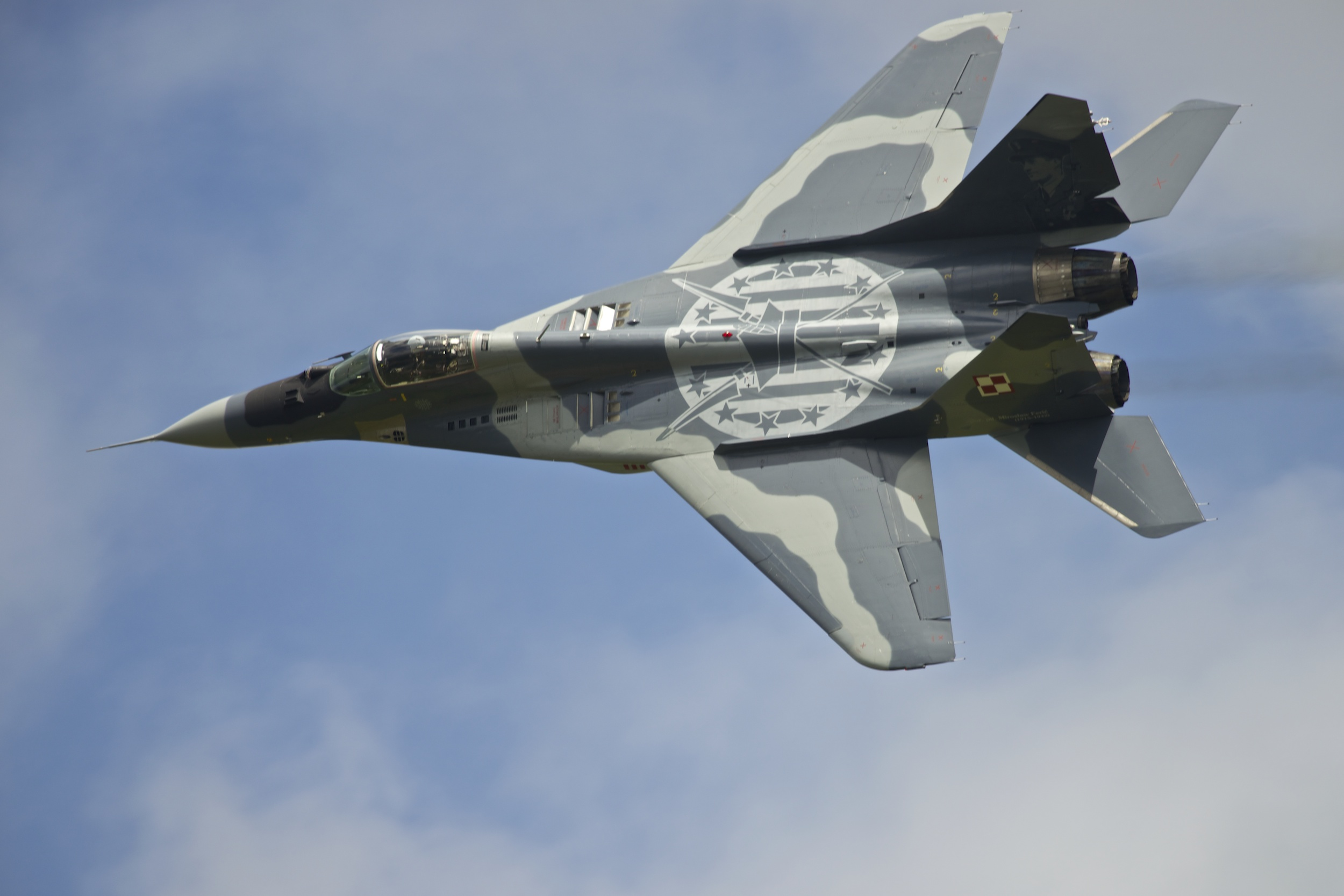 Royal International Air Tattoo 2012